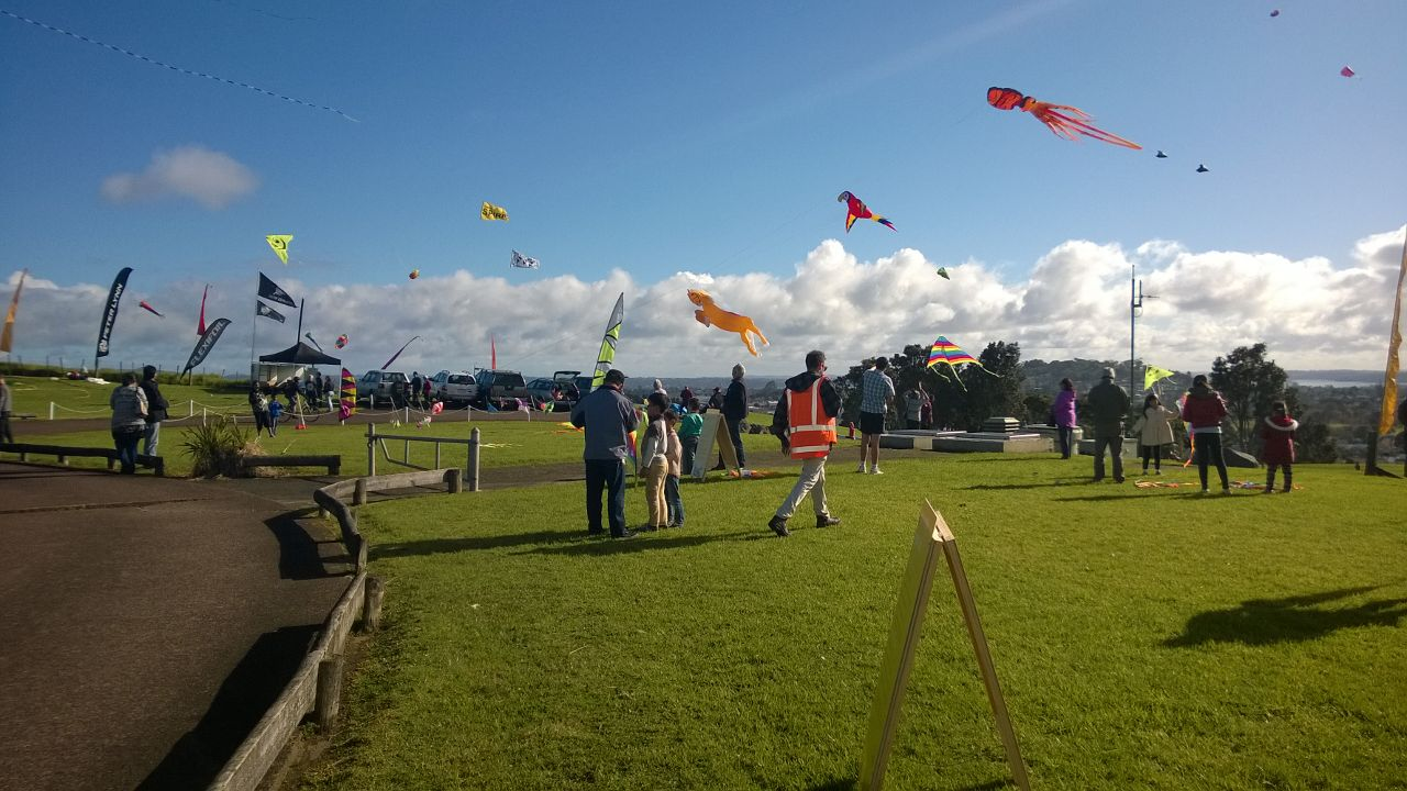 Kite festival, Matariki (Māori New Year), Auckland. Summit of Mt. Roskill